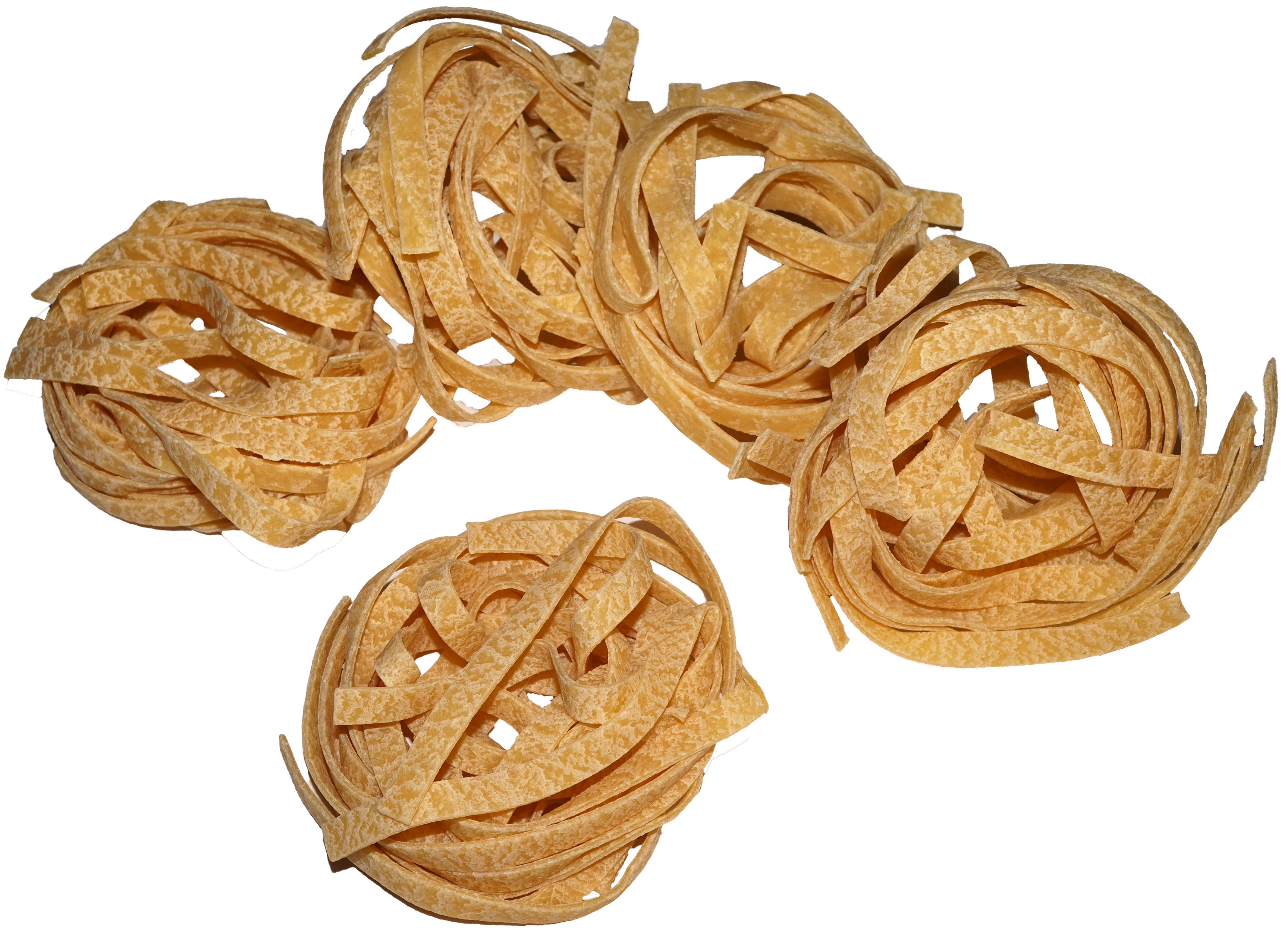 Dry tagliatelle (egg pasta).